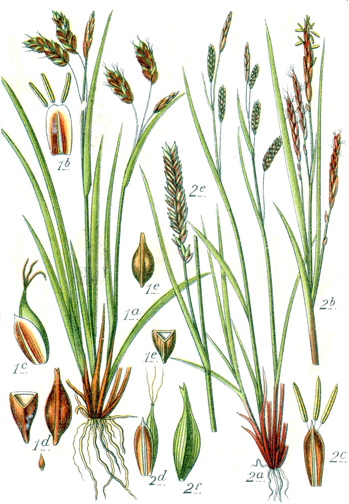 1. Carex capillaris L. 2. Carex brachystachys Schrank Original Caption 1. Flatter-Segge, Carex capillaris 2. Dünne Segge, C. brachystachys